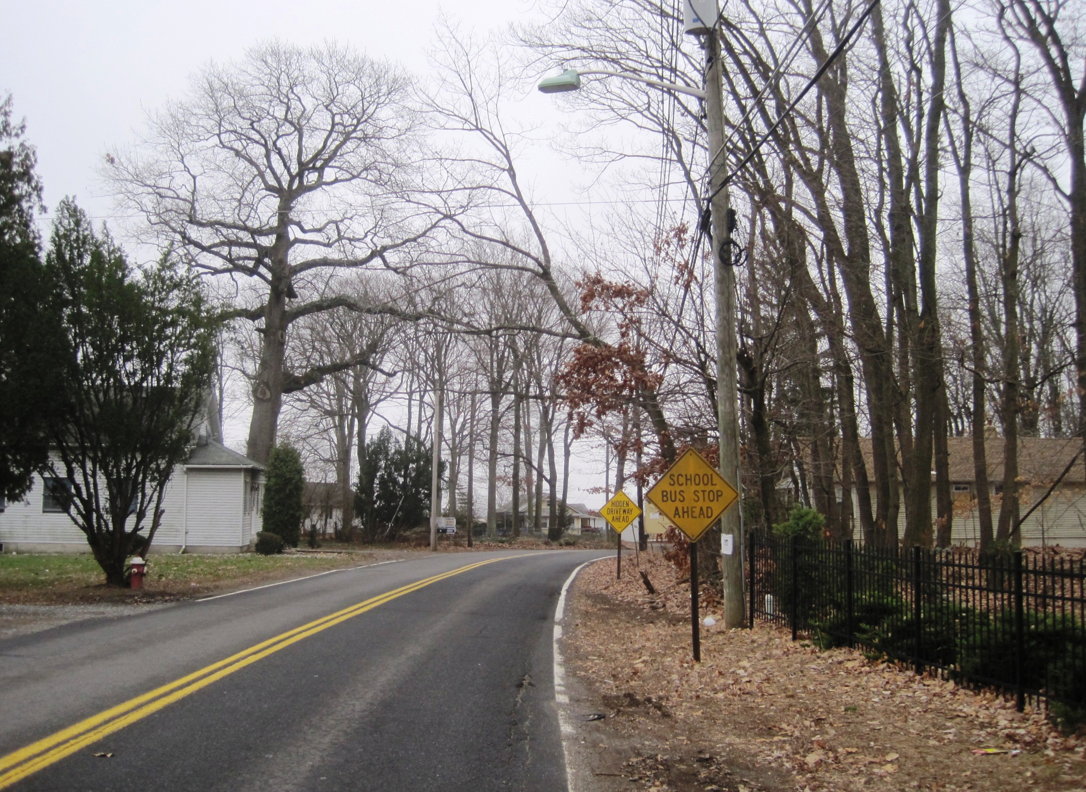 Photo of the unincorporated community of Sand Hills, New Jersey within South Brunswick, Middlesex County. Photo taken on southbound Major Road just south of US 1.